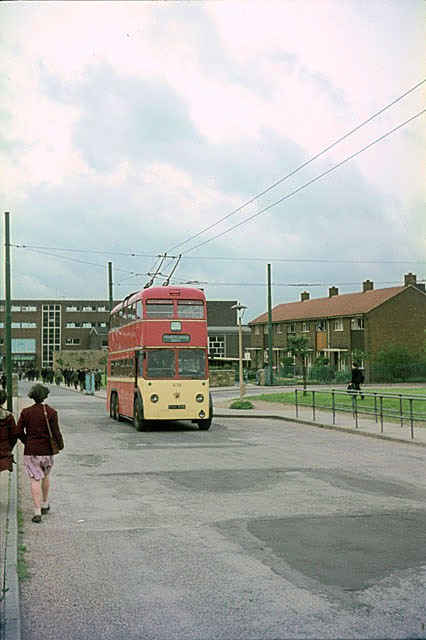 British Trolleybuses - Huddersfield When the Salendine Nook Schools were built, Huddersfield Corporation was only operating trolleybuses, so a special terminus area for trolleybuses was built as part of the development. This was the only such provision in the British Isles. It was only used for a small number of journeys specifically for pupils at the Schools. The scene is little changed today; fashions have changed and the trees have grown, but the buildings are still there. For a slide show of British Trolleybuses in the late 60s